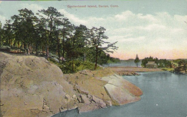 Postcard: Contentment Island, once an island, now a peninsula in Darien. Postcard sent in 1914, according to store Web page: "a canceled 1914 postcard of Contentment Island, in Darien, Connecticut. It is postally used [...] It was published by Allen The Druggist, Darien, Conn."